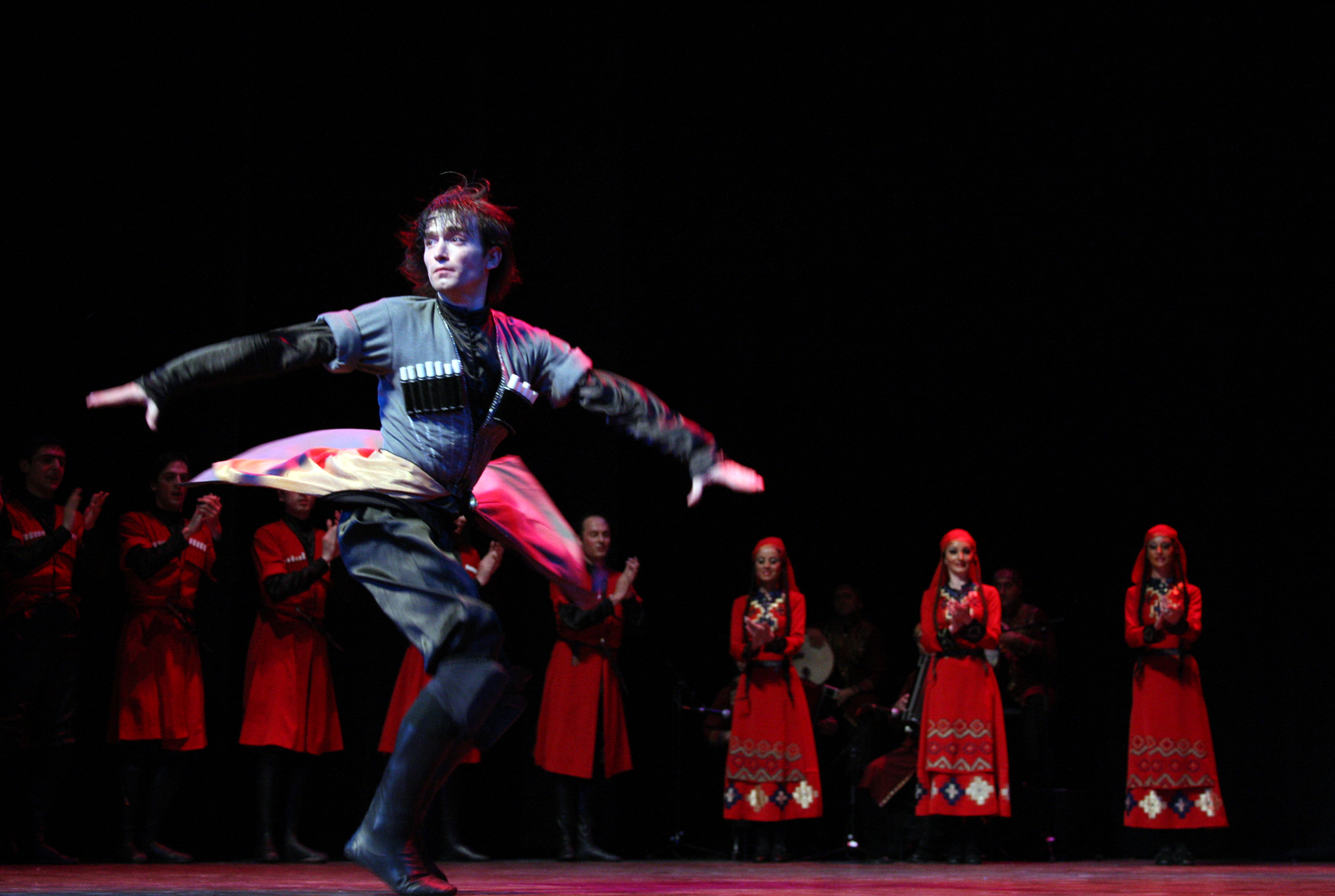 Ensemble Rustavi performing dances of Georgia.